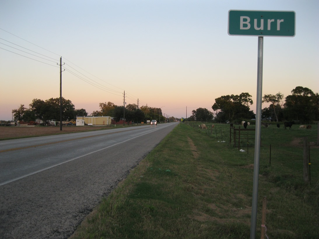 Photo shows the Burr, Texas road sign on Farm to Market Road 1301. View looks approximately east toward the junction with Kriegel and Chudalla Roads.